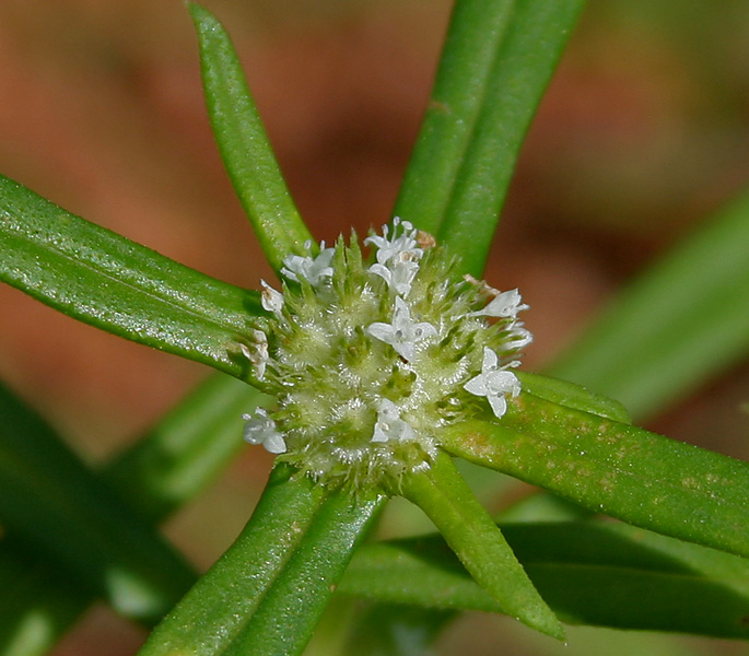 Tiny false button weed, safed phooli or Tarakadal Spermacoce pusilla in Hyderabad , India.